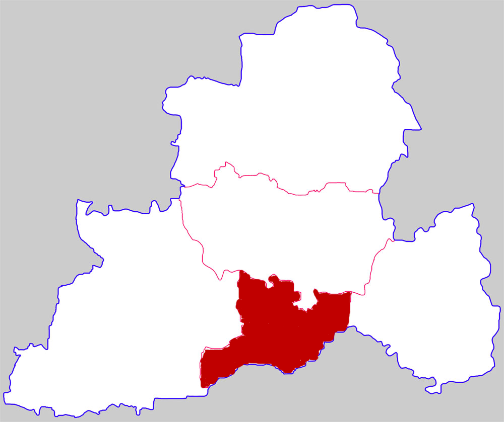 Location of Yuanhui district in Luohe city, China